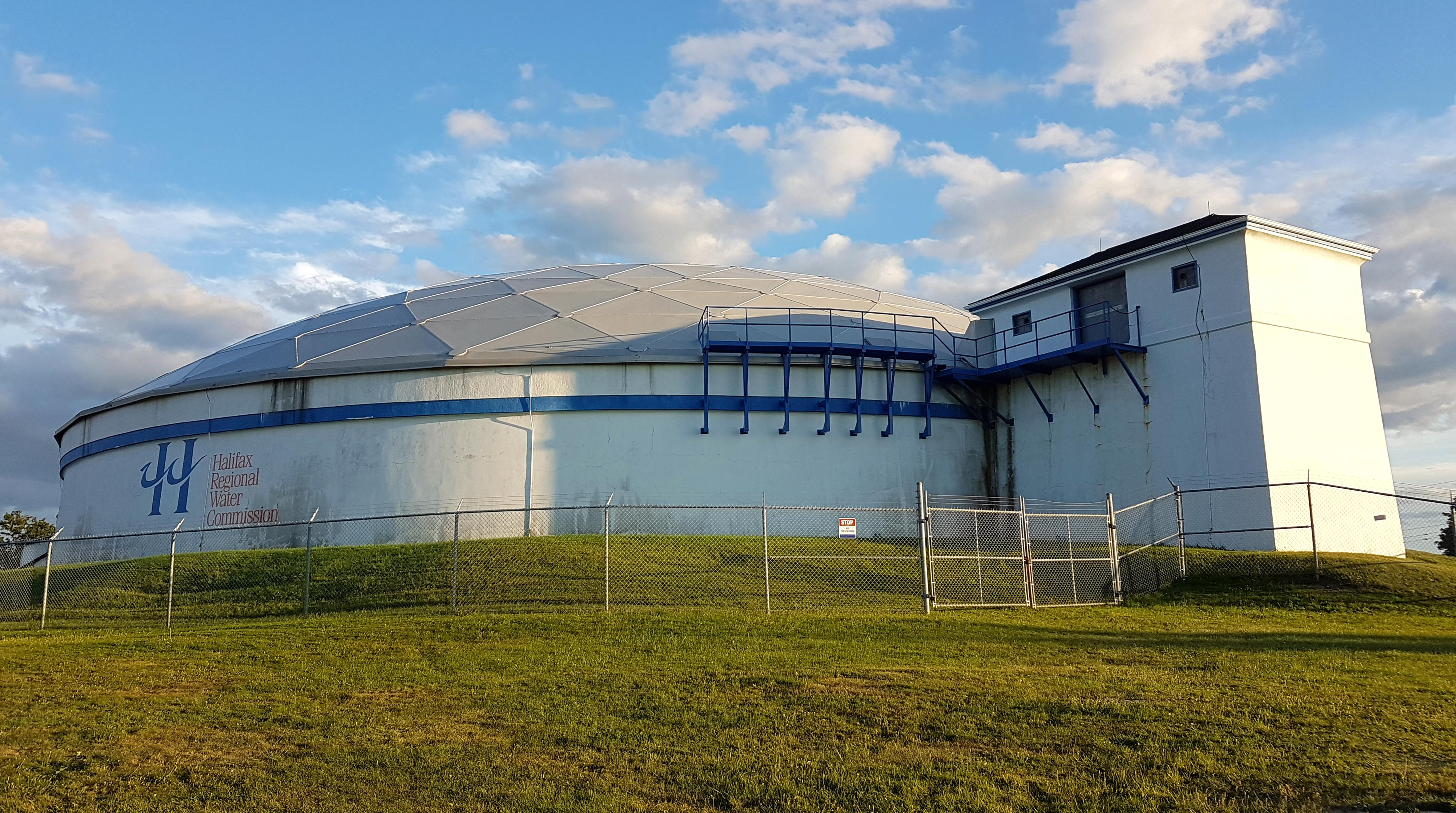 This photo taken on September 9, 2018 shows the Robie Street Reservoir of the Halifax Regional Water Commission (HRWC) in the North End of Halifax, Nova Scotia, Canada. Built in 1913, the reservoir was one of the few structures of the area to survive the 1917 Halifax Explosion. It was designated a landmark by the American Water Works Association in 1983 and a national historic civil engineering site by the Canadian Society for Civil Engineering in 2014. Photo album: Buildings in Halifax, Nova Scotia